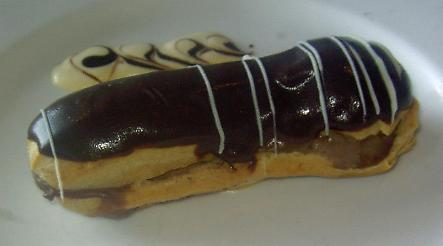 Éclairs are most commonly served as a dessert.